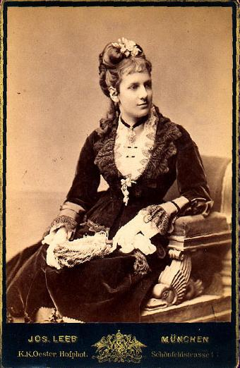 Maria Theresa of Austria-Este, Queen of Bavaria.